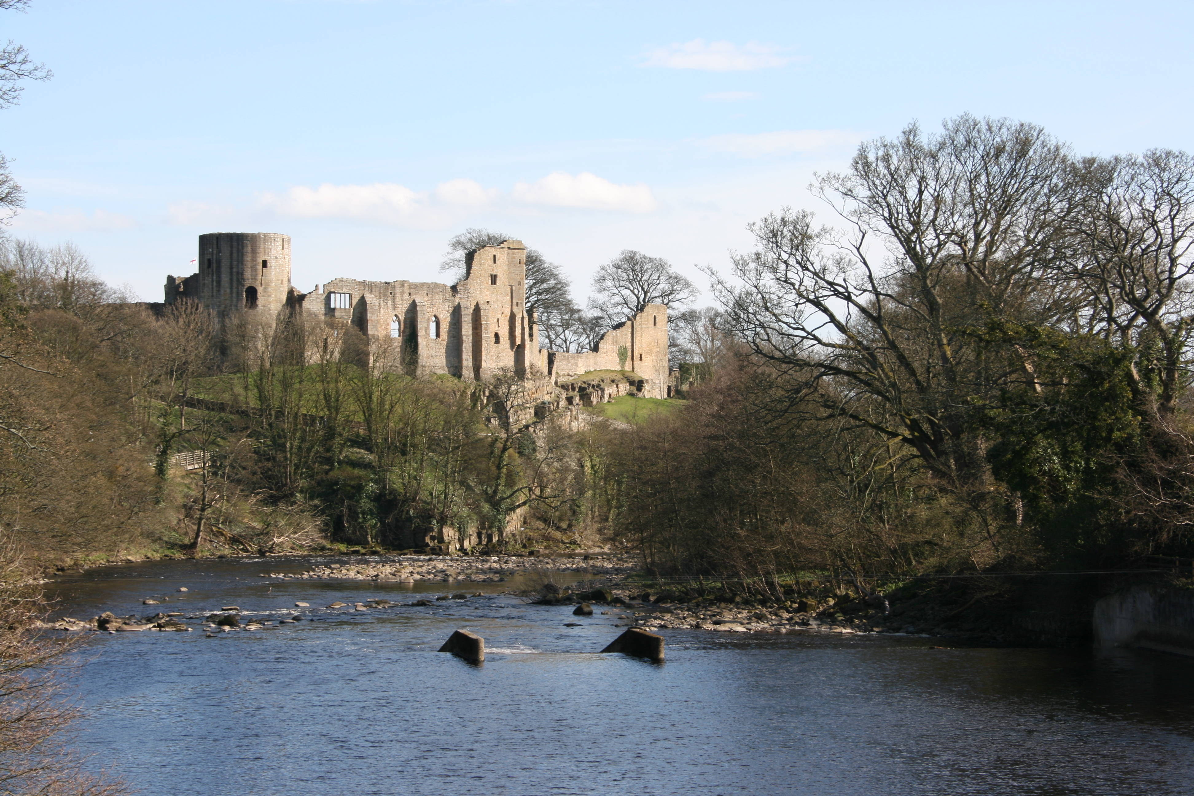 Barnard Castle from across the River Tees